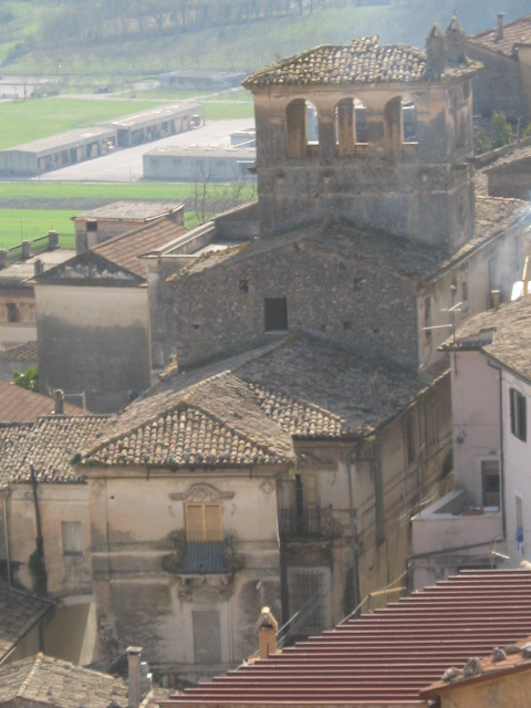 "Palazzo Rosati" in Alvito, Italy.